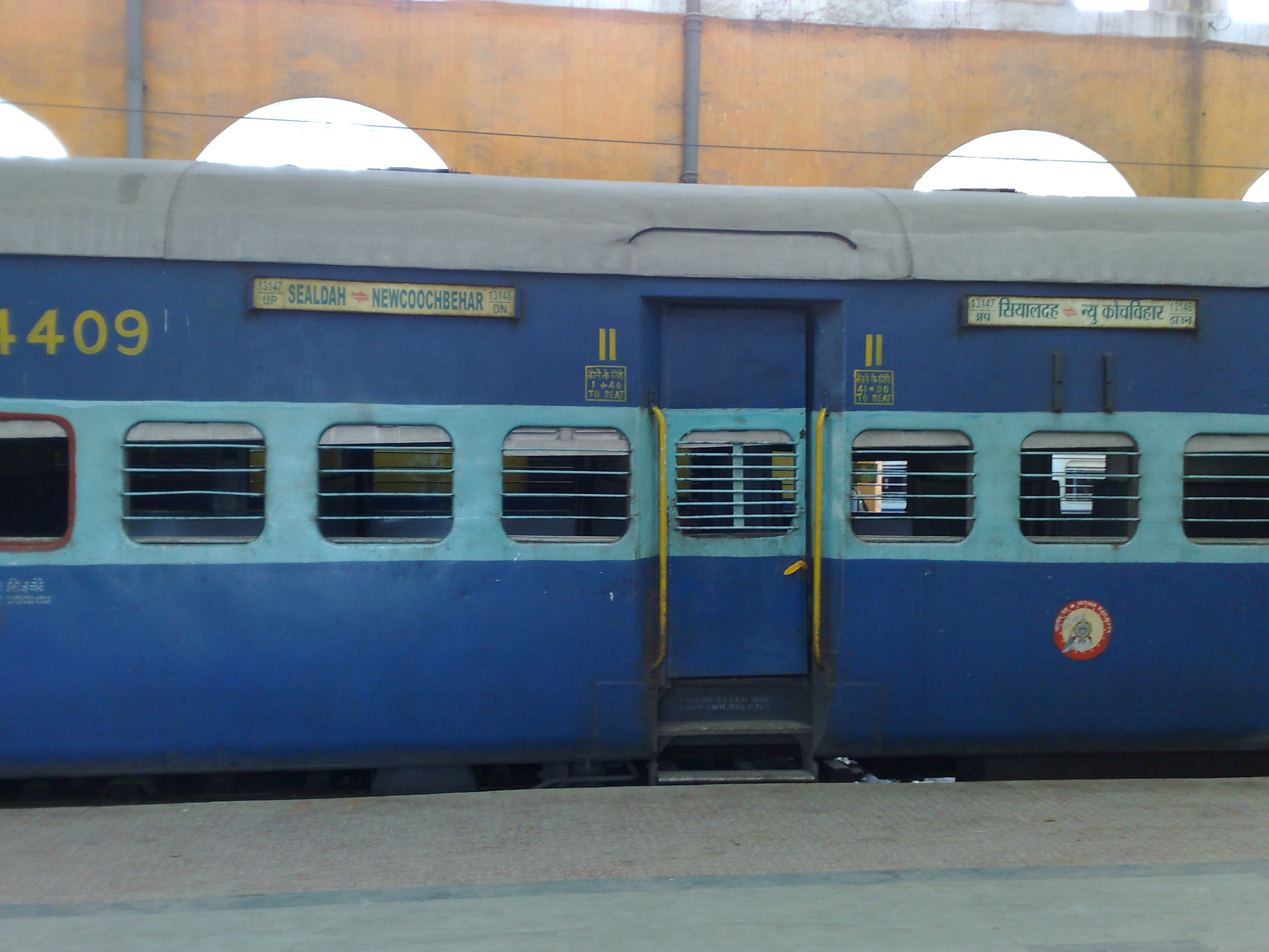 13147 Uttar Banga Express - Second Class coach